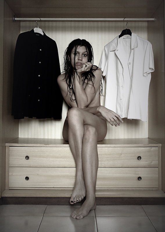 Allegory of choice: young woman wondering which shirt to wear. This is not a B&W picture. See File:Hard to make the right choice - B&W version.jpg for comparison.